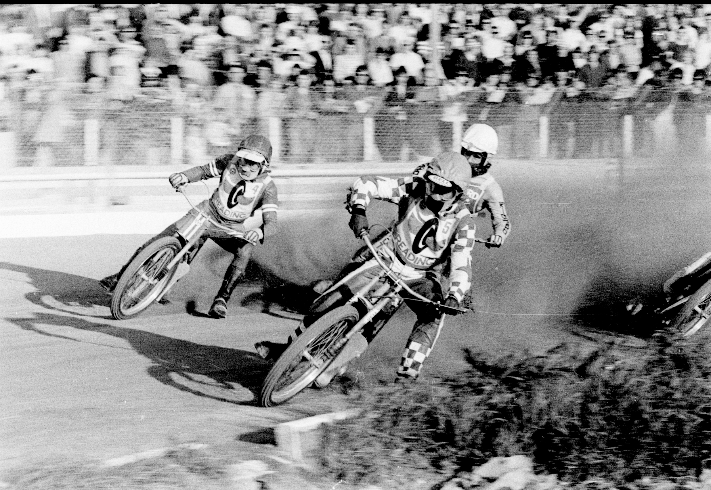 Reading Racers at home to Oxford Rebels